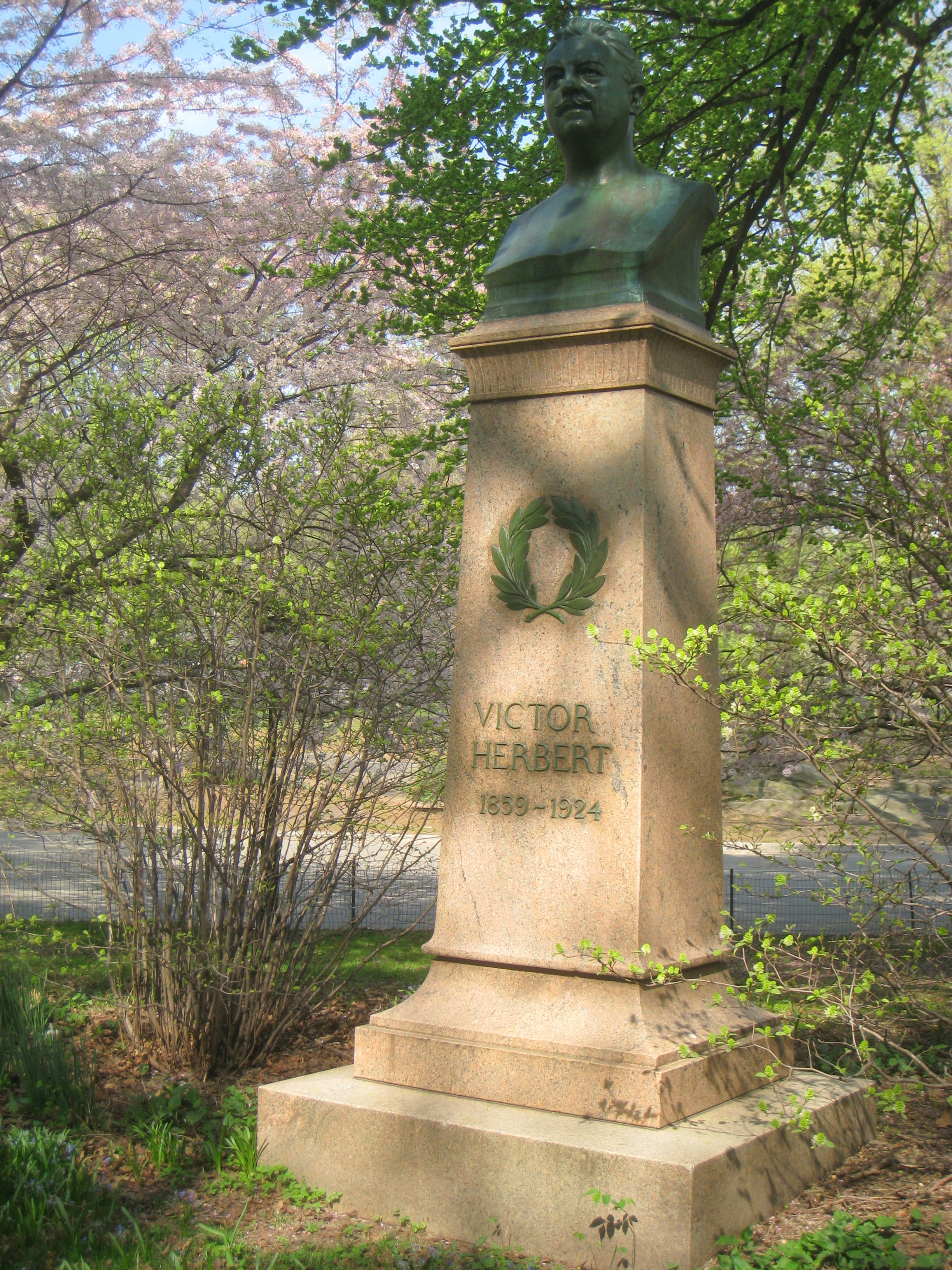 Victor Herbert memorial by Edmund Thomas Quinn (1868-1929), Central Park, New York City, New York, USA.